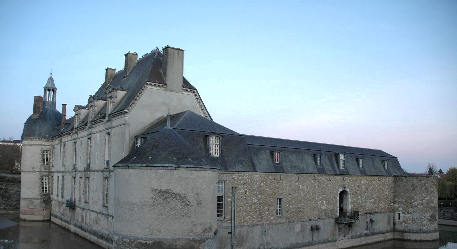 Etoges Castle Main Building